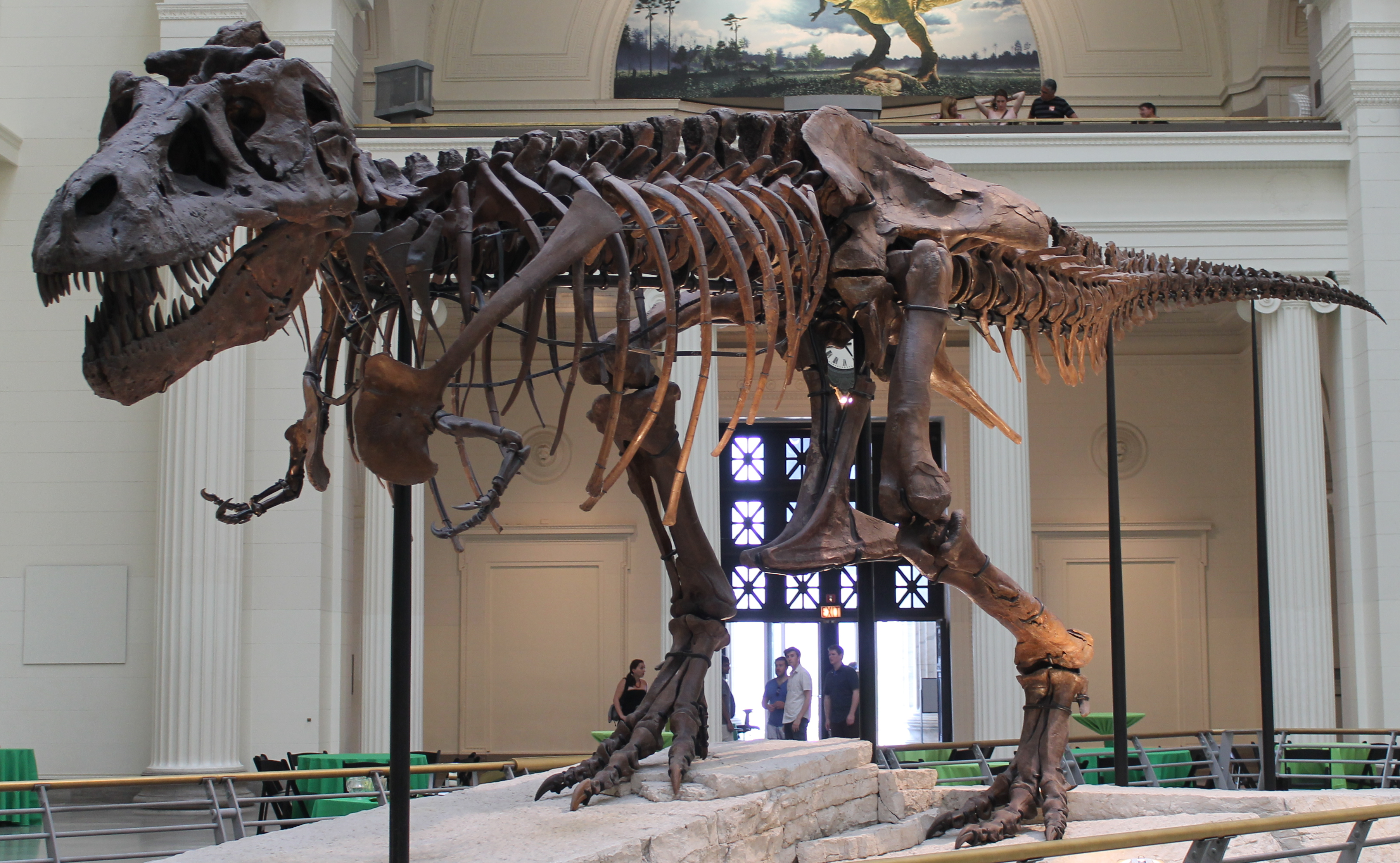 Sue, the most complete fossil skeleton of a Tyrannosaurus Rex specimen ever found.